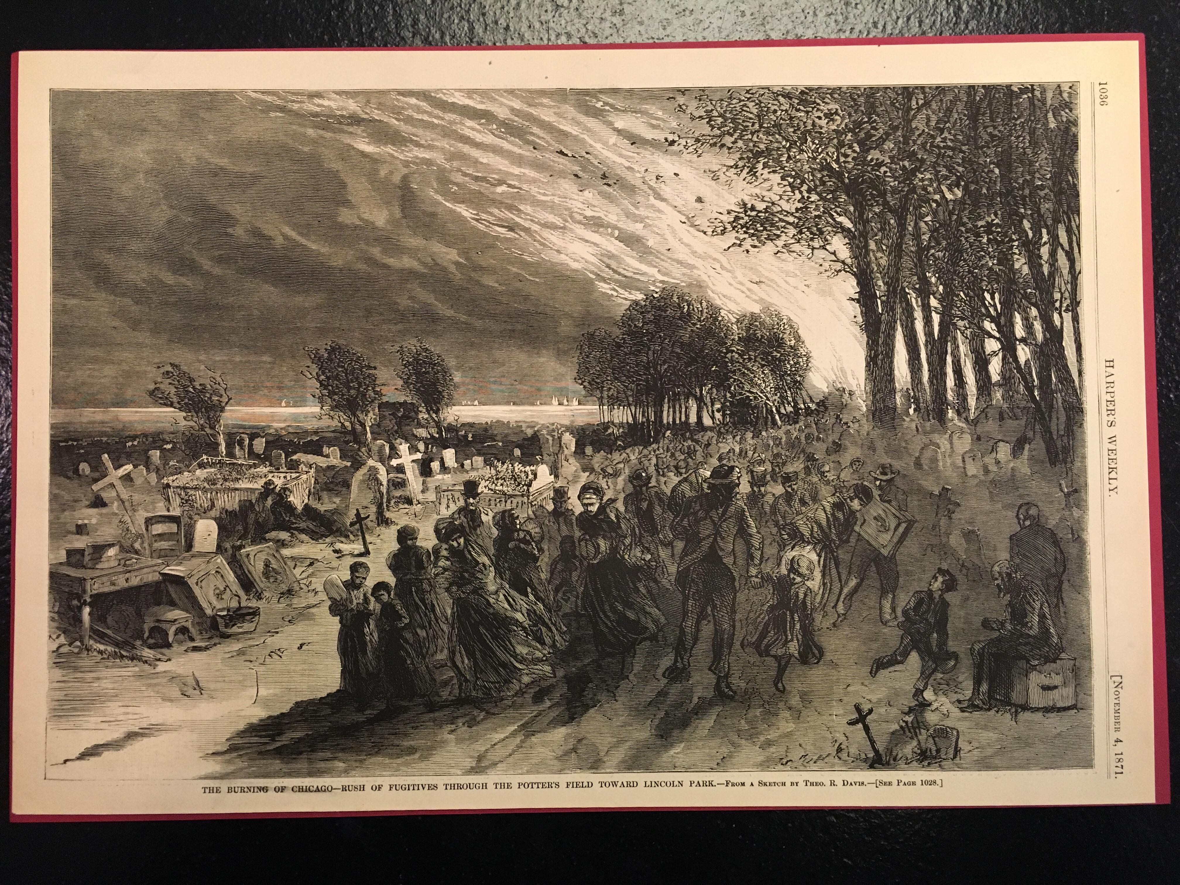 people escaping the Chicago Fire fleeing into Lincoln park 1871